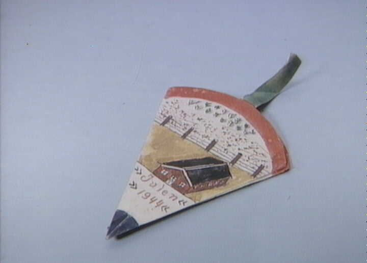 Christmas ornament from the Frøslev Camp